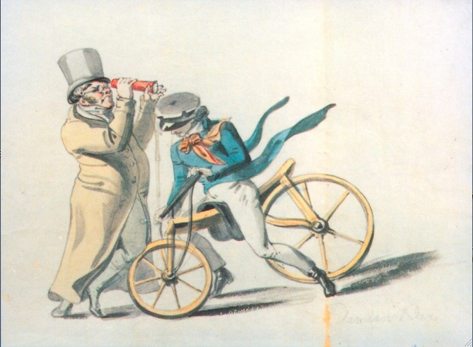 1997c back (detail)